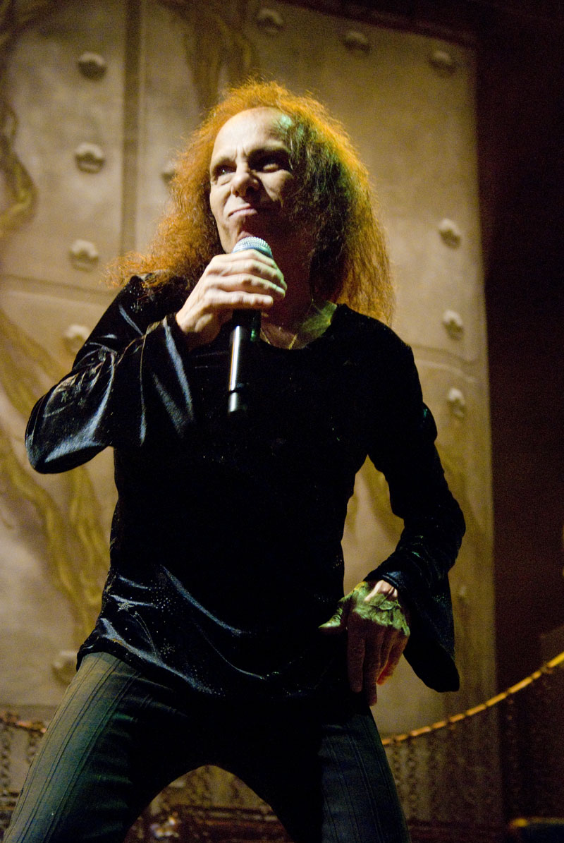 Ronnie James Dio on tour with Heaven and Hell at Charter One Pavilion in Chicago, IL, USA on June 11, 2009. Photo by Adam Bielawski